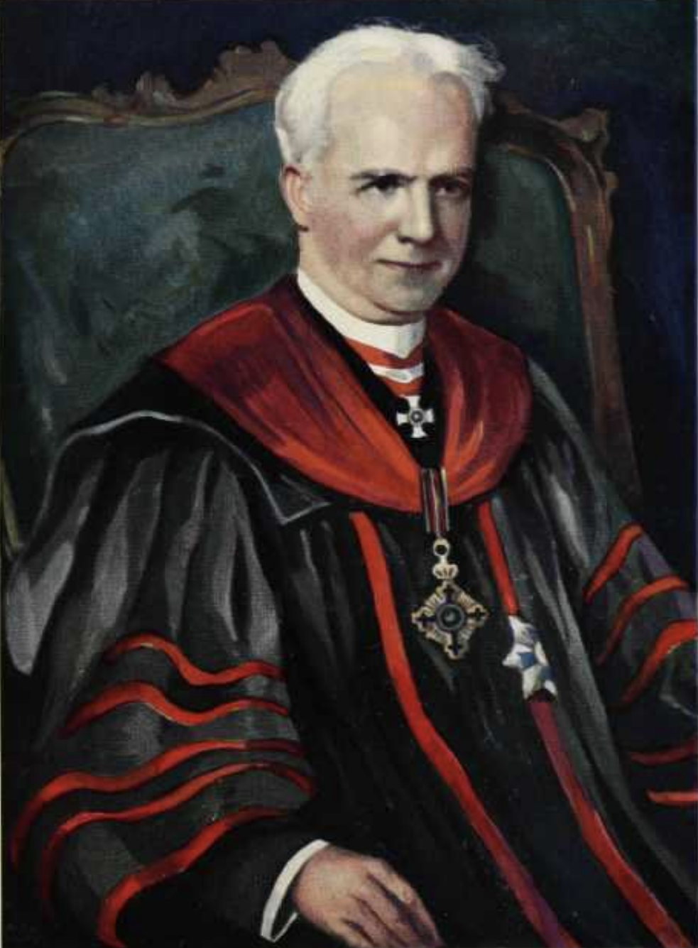 Portrait of W. Coleman Nevils, president of Georgetown University